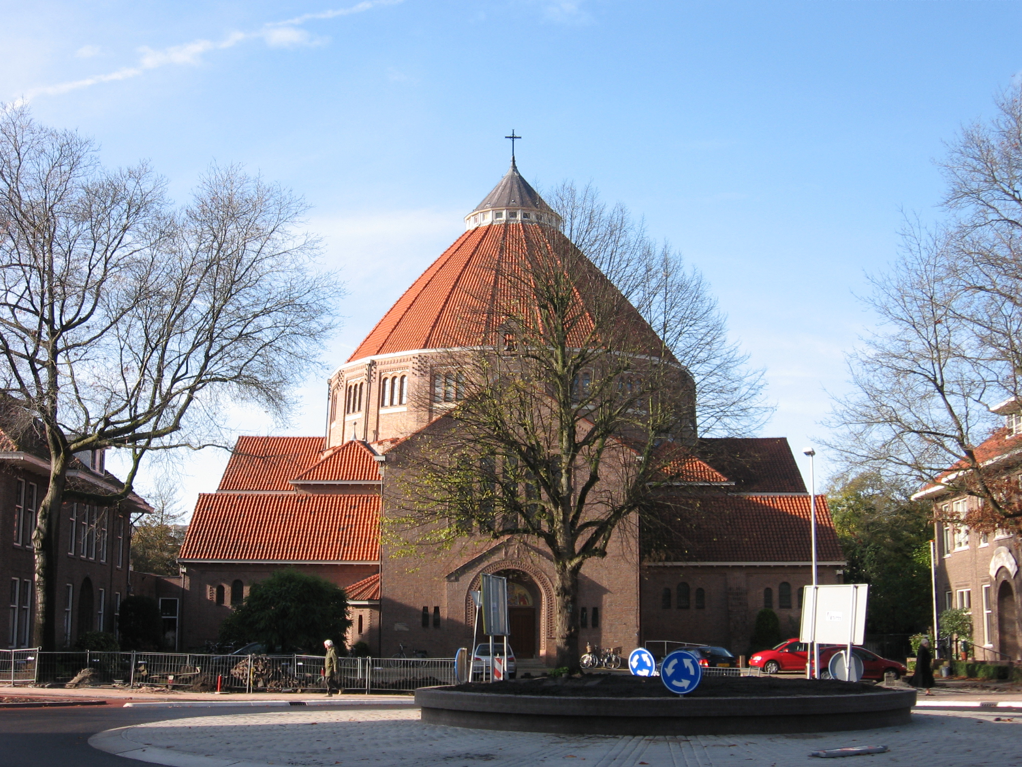 Koepelkerk, Bussum